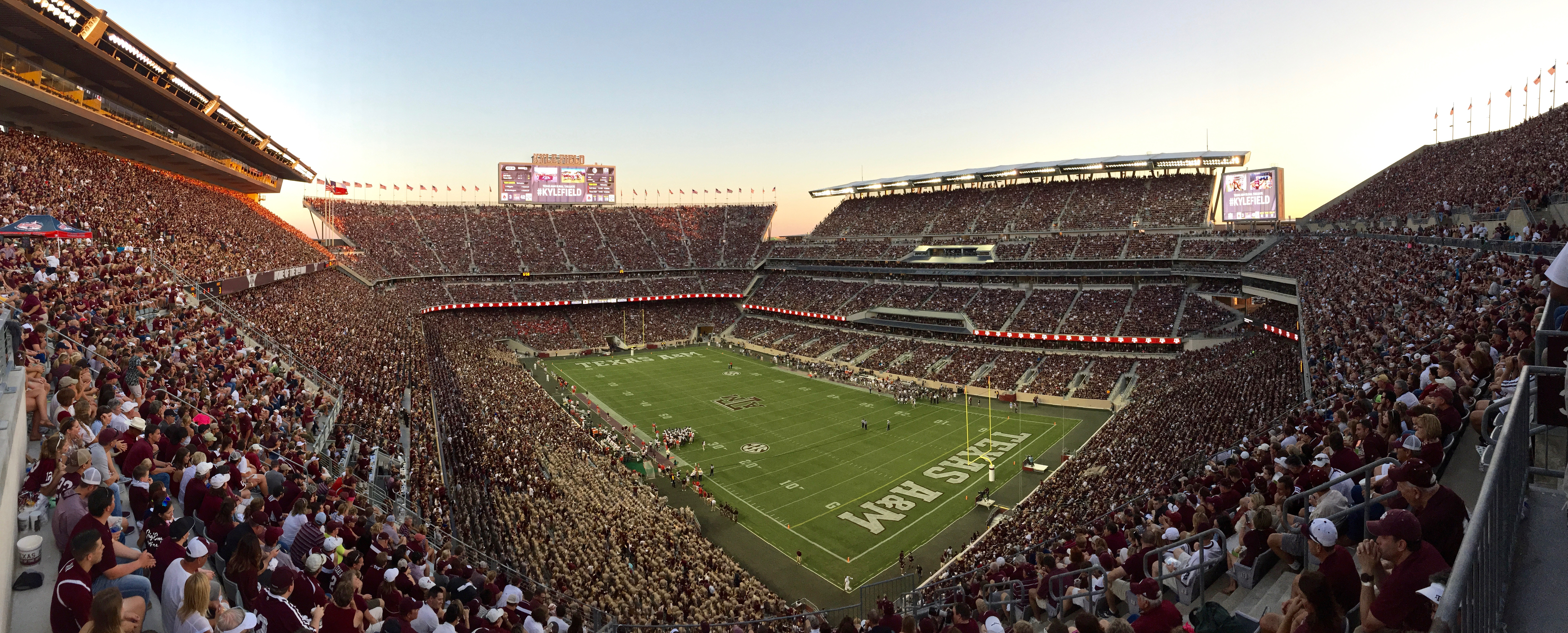 A panorama of the interior of Kyle Field in College Station, Texas. Taken at the Ball State game during the 2015 season.